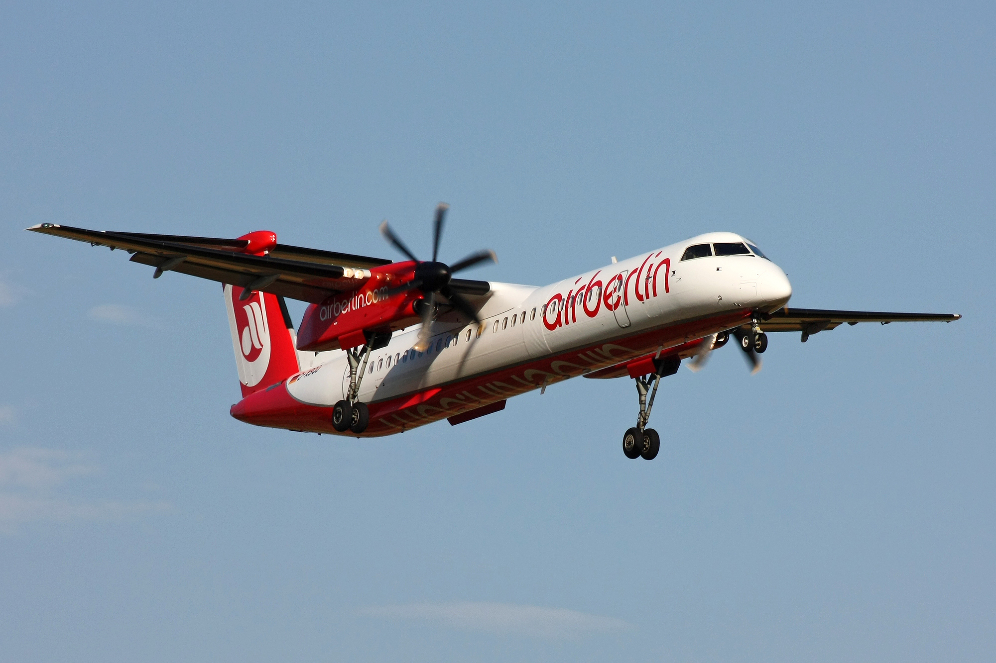 Luftfahrtgesellschaft Walter LGW (Air Berlin) Dash 8-Q400 landing at Stuttgart Airport